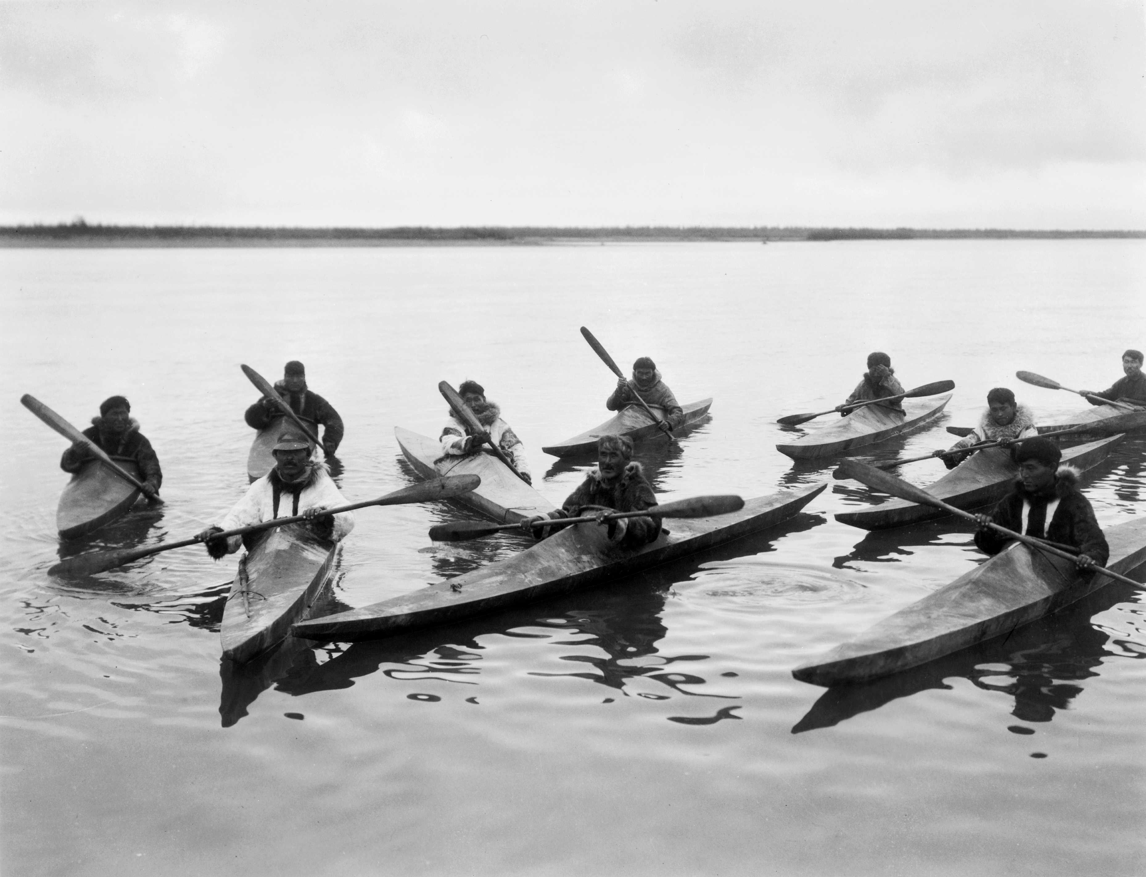 Eskimos in kayaks, Noatak, Alaska. Photograph by [:en:Edward_S._Curtis|Edward S. Curtis], ca. 1929.